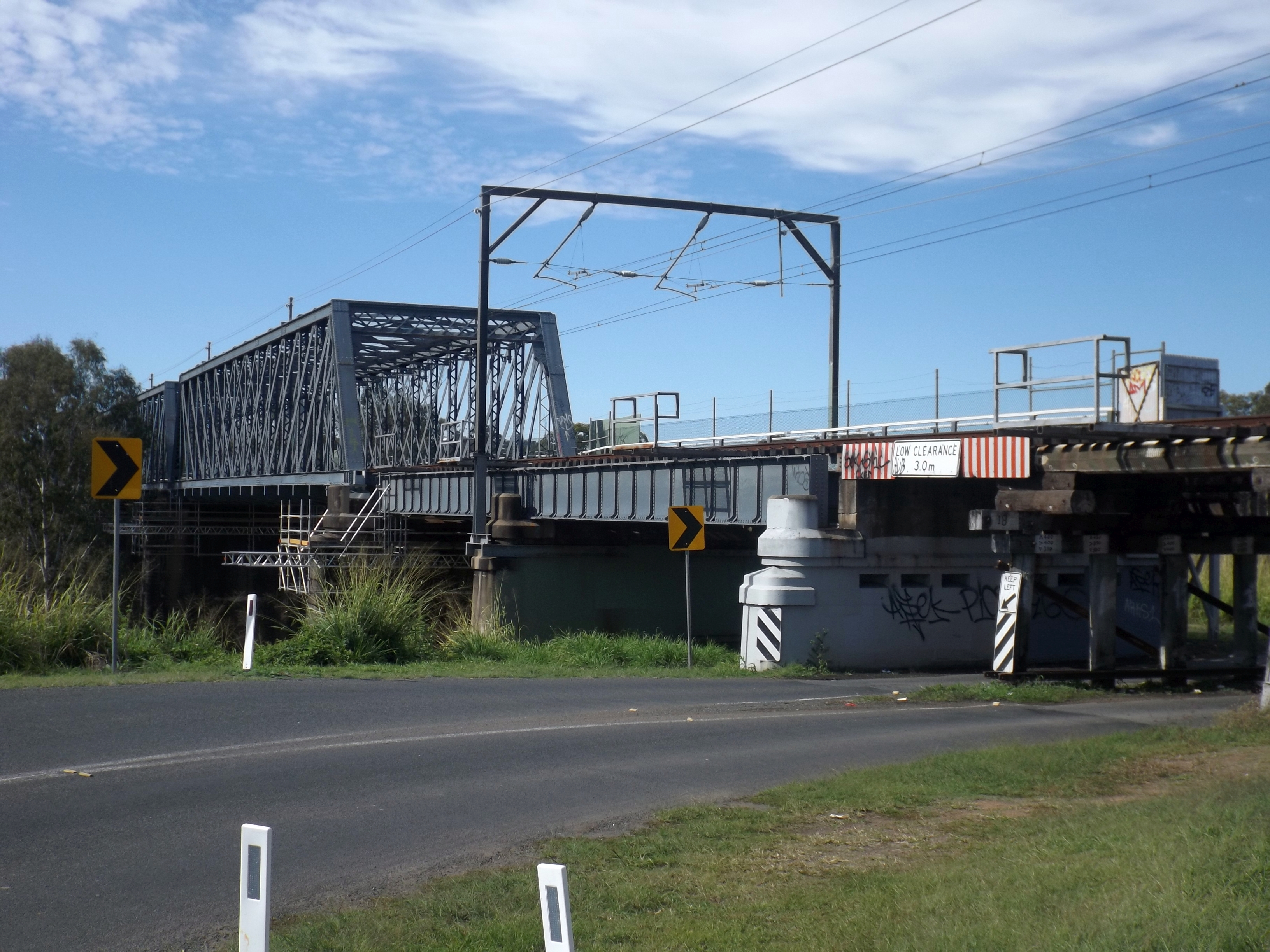 Photo of Sadliers Crossing Railway Bridge at Wulkuraka Ipswich, Queensland, Australia.